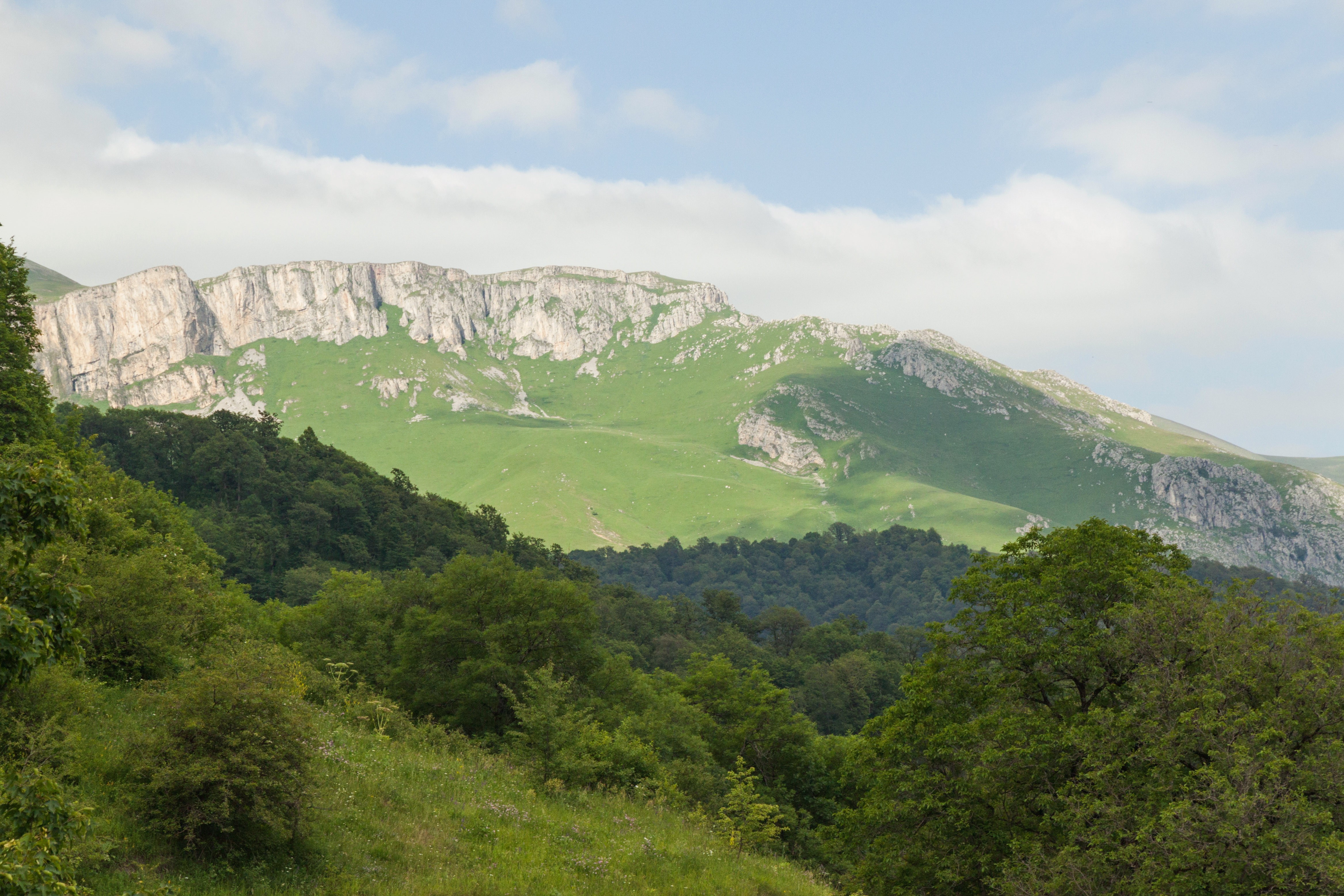 View from Haghartsin Monastery. Dilijan National Park, Tavush Province, Armenia.